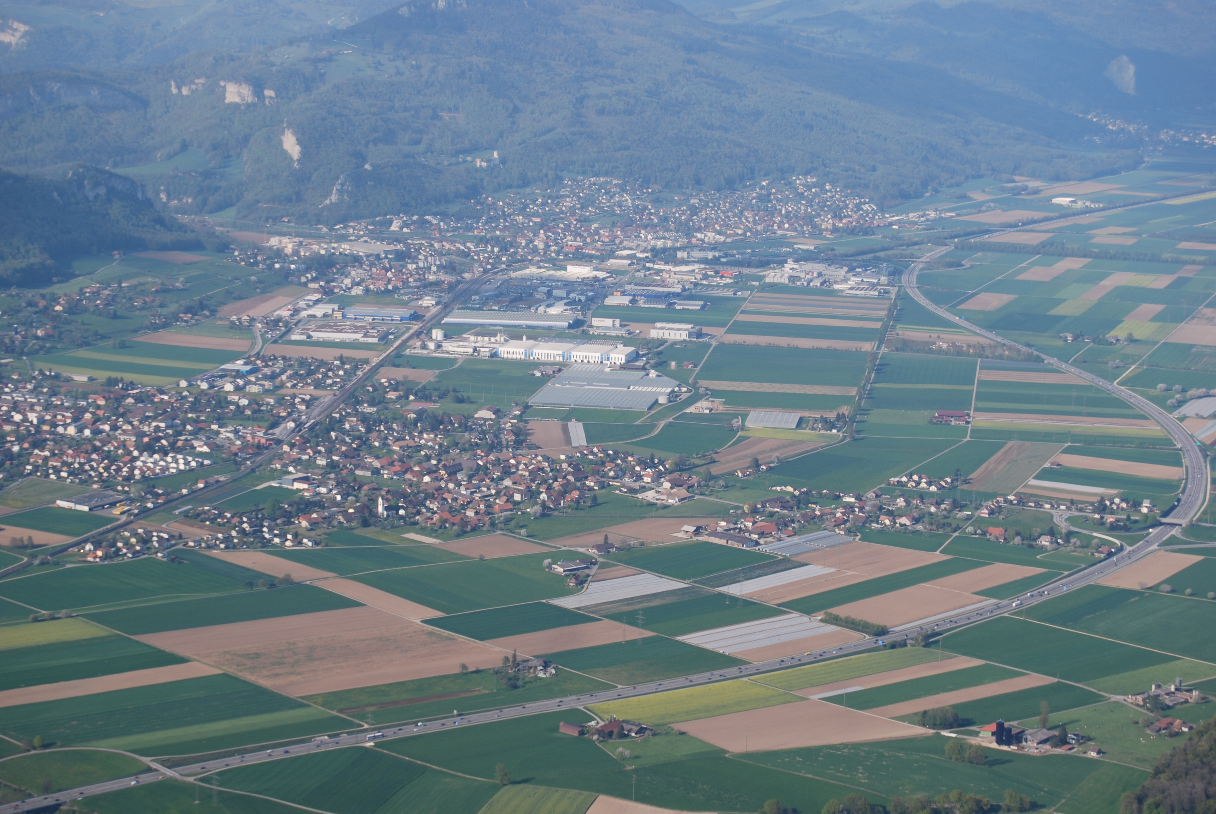 Aerial view of Niederbipp, canton of Bern, and Oensingen, canton of Solothurn, Switzerland